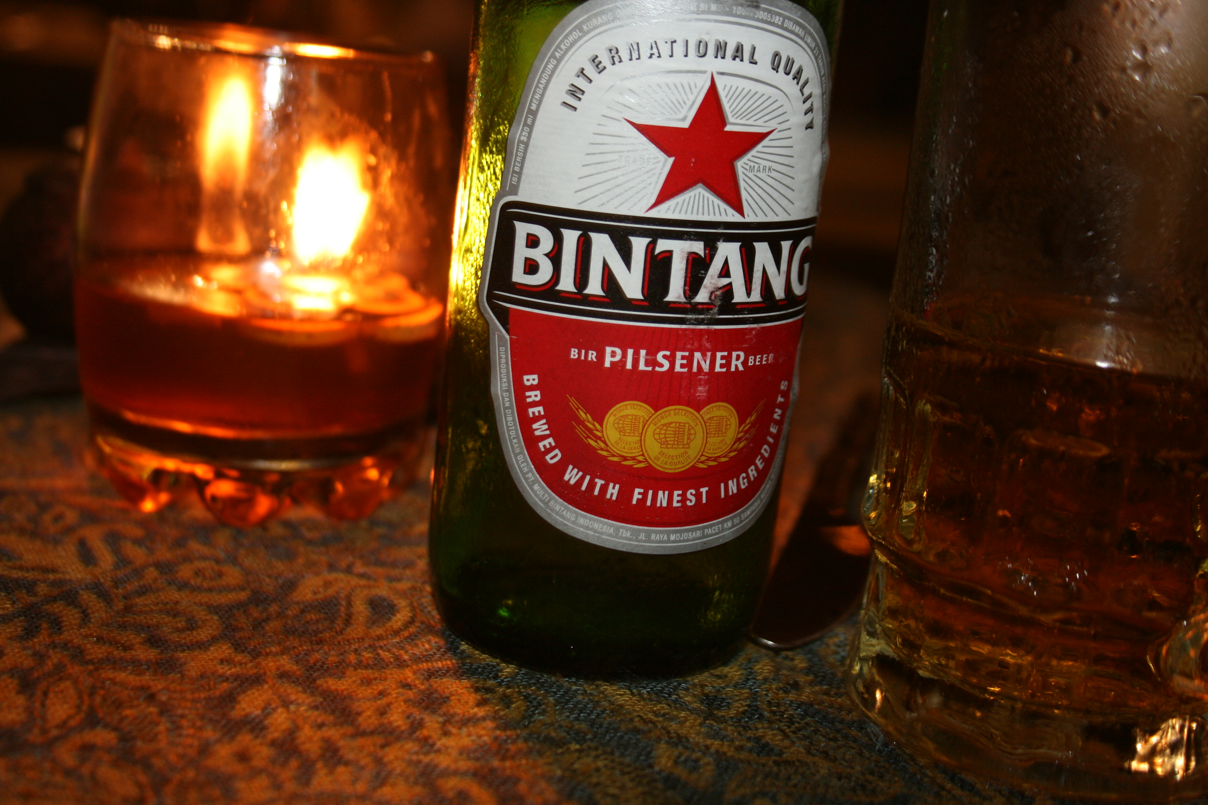 Large bottle of Bintang Beer